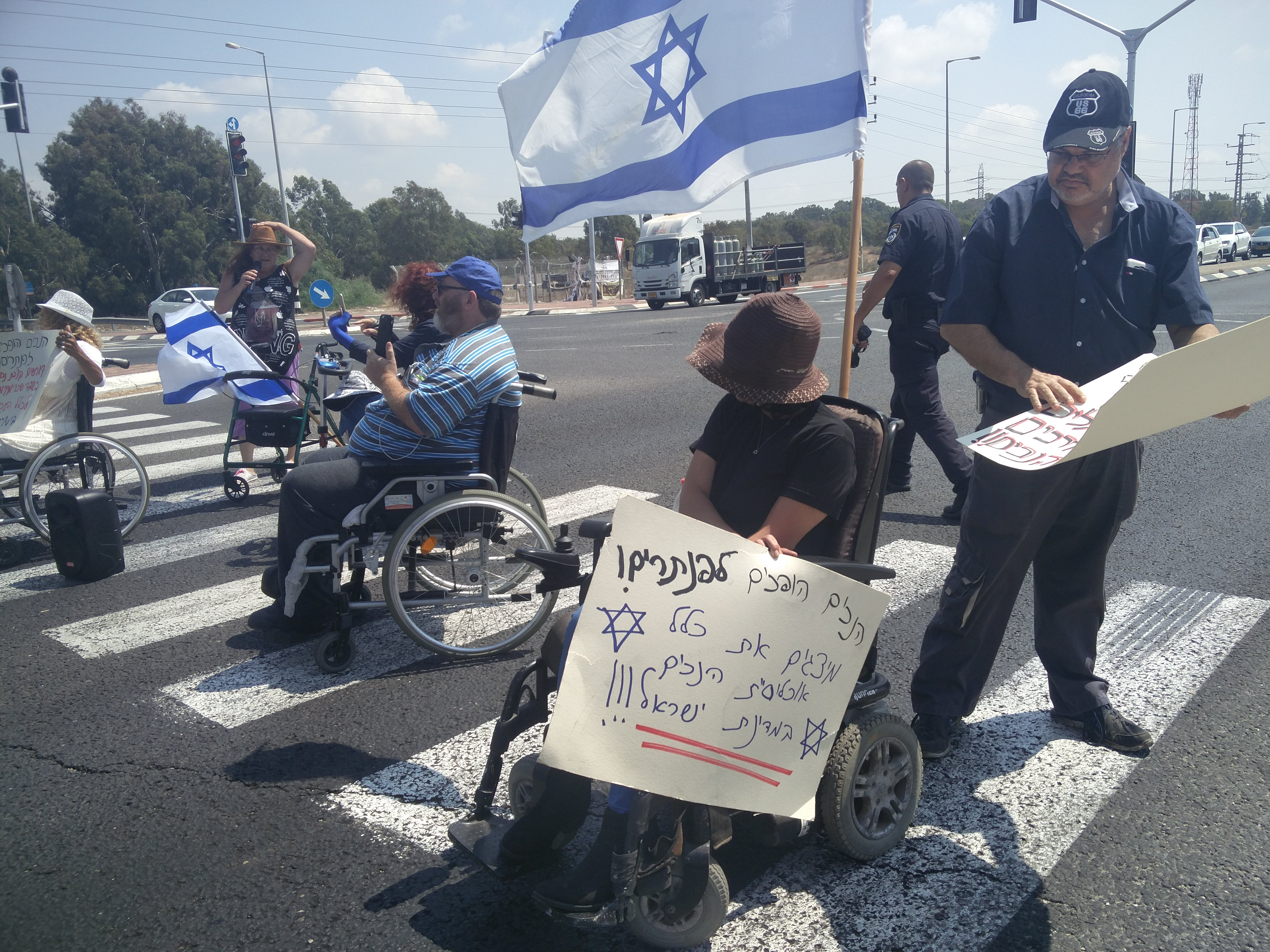 Hanna Akiva with a brown hat on Highway 4 near Or Akiva, Israel.